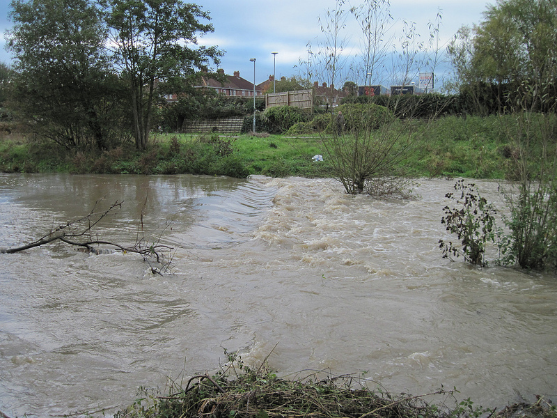 River Biss in full flood on one of many similar days in November 2012. In the background is the Tesco Extra supermarket. Prior to 1993 the river ran through what is now the car park.